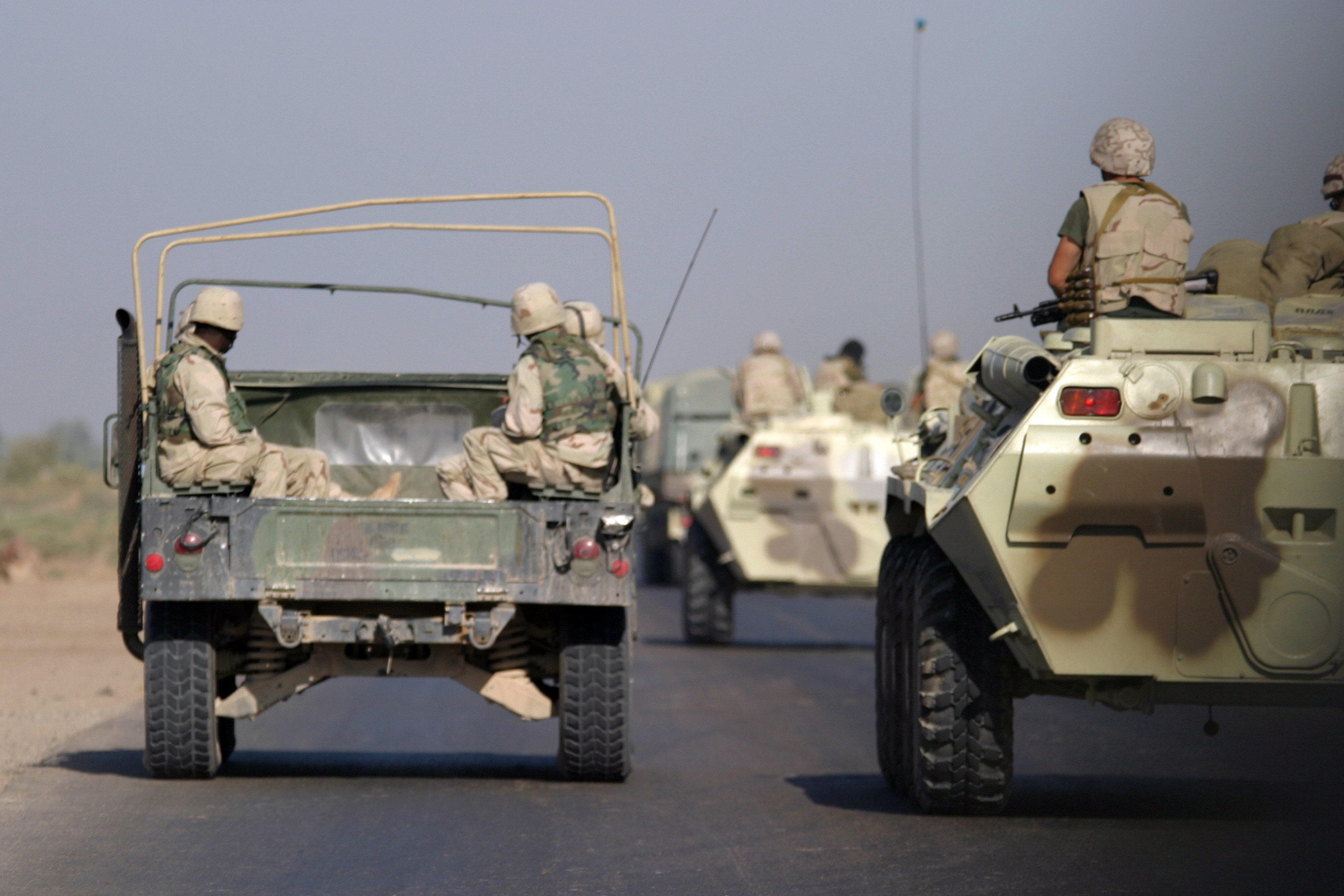 US Marines (left) aboard a High-Mobility Multipurpose Wheeled Vehicle (HMMWV) and Ukrainian Army Soldiers aboard BTR-80A (8x8) APC, travel along a highway from Al Kut to As Suwayrah, Iraq.